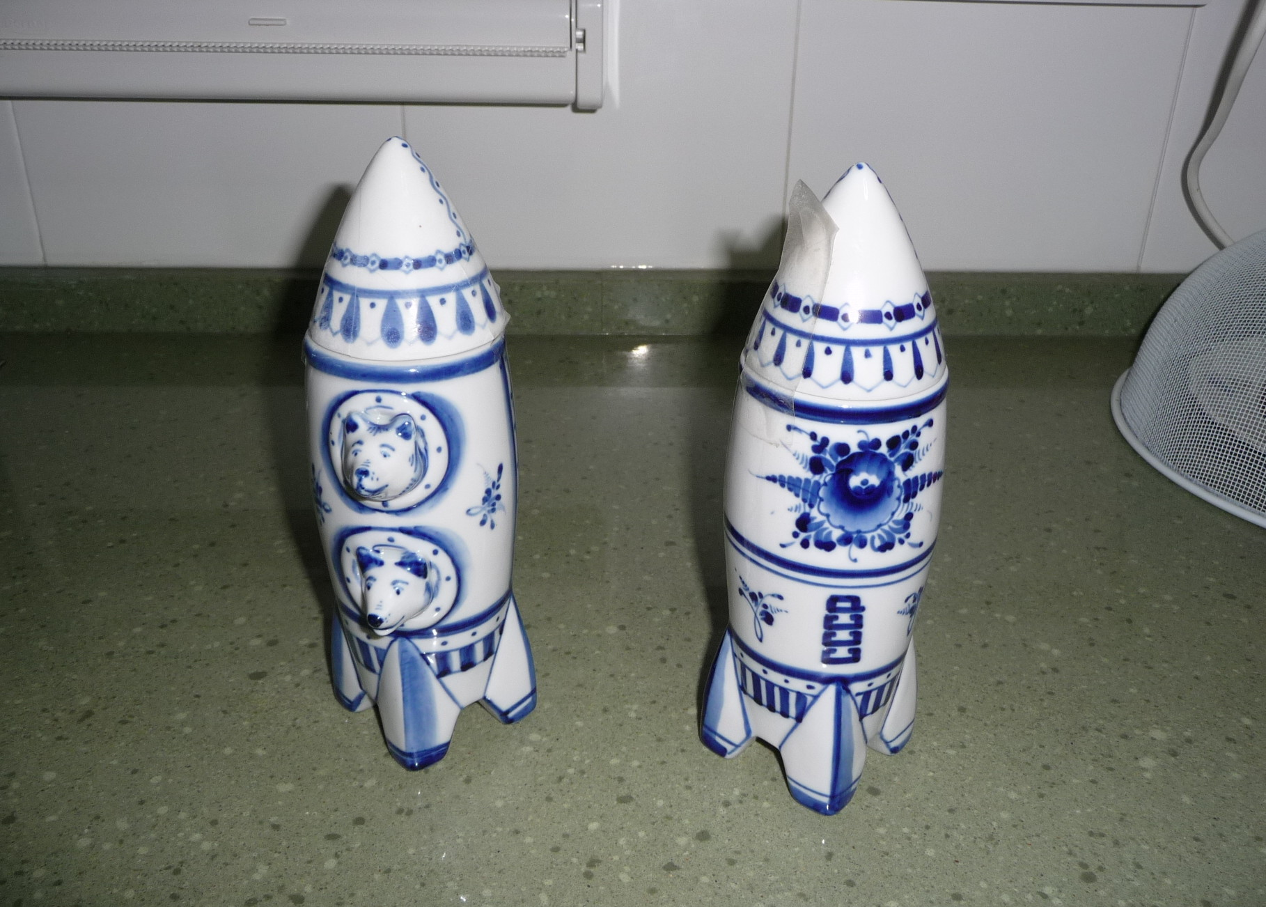 Gzhel spaceships. They really are bottles to keep liquid.